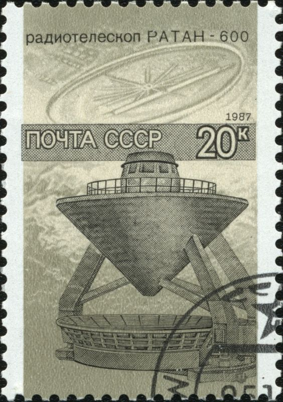 A USSR stamp, Science in USSR. Date of issue: 25th November 1987. Designer: A. Kernosov Michel catalogue number: 5776. 20 K. brownish black, stone and drab. “Ratan-600” radio telescope.